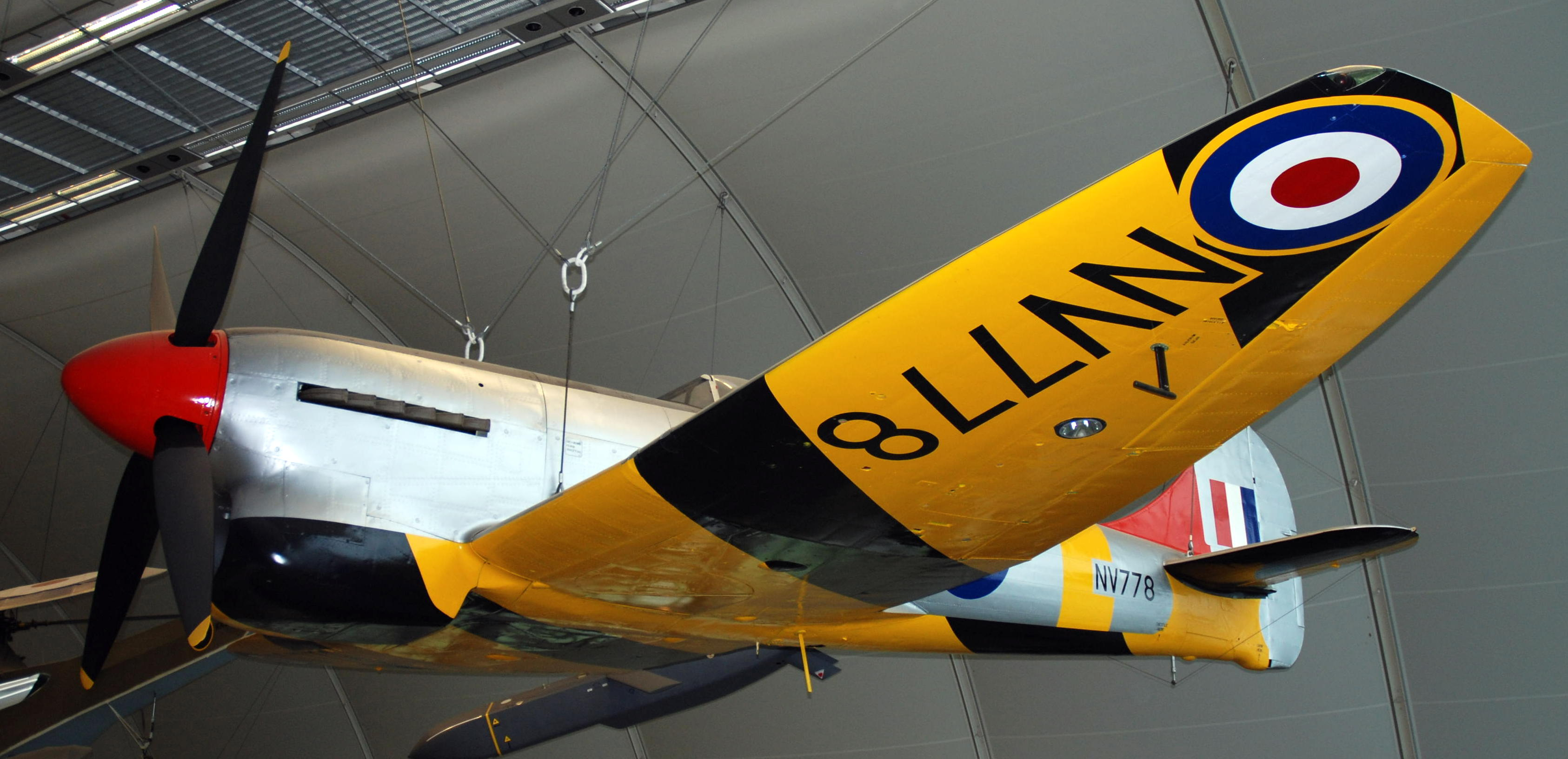 Photo ref; Nikon-D80-2013-DSC_1151 (Edited)